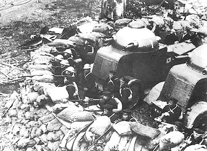 Japanese Shanghai Special Landing Force with their Vickers-Crossley armored cars in the defensive position.